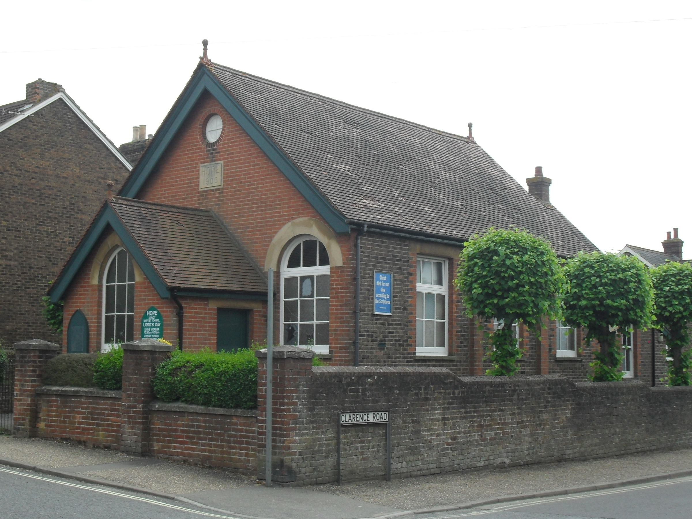 Hope Strict Baptist Chapel, Oakhill Road, Horsham, West Sussex, England. Built in the late 19th century.